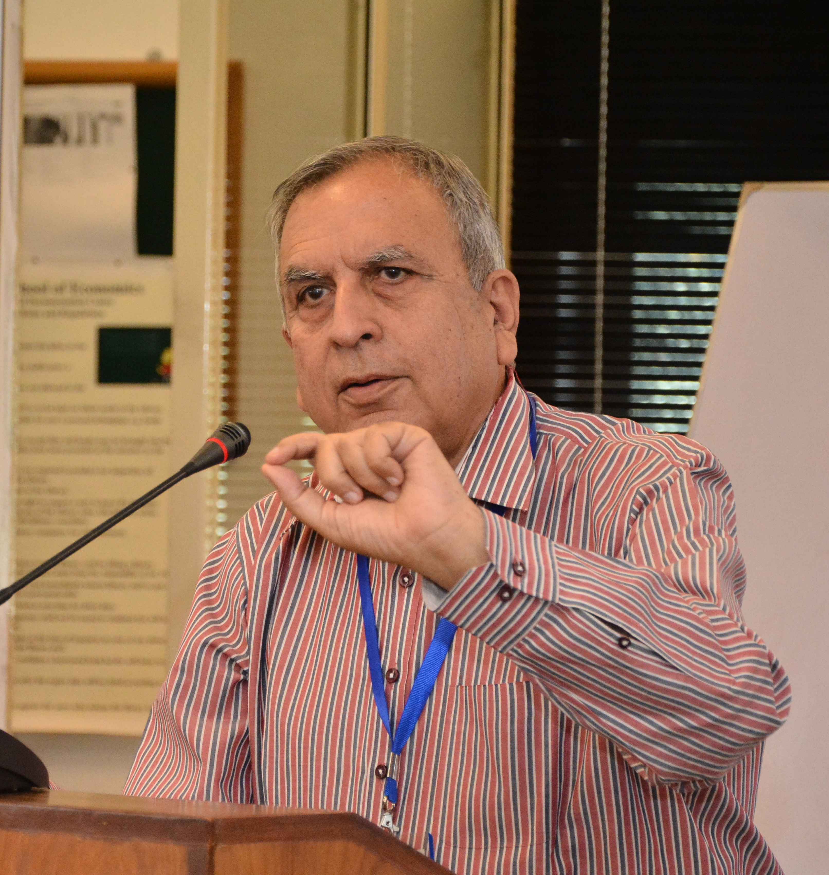 CMSS RAMMA meeting 2018.